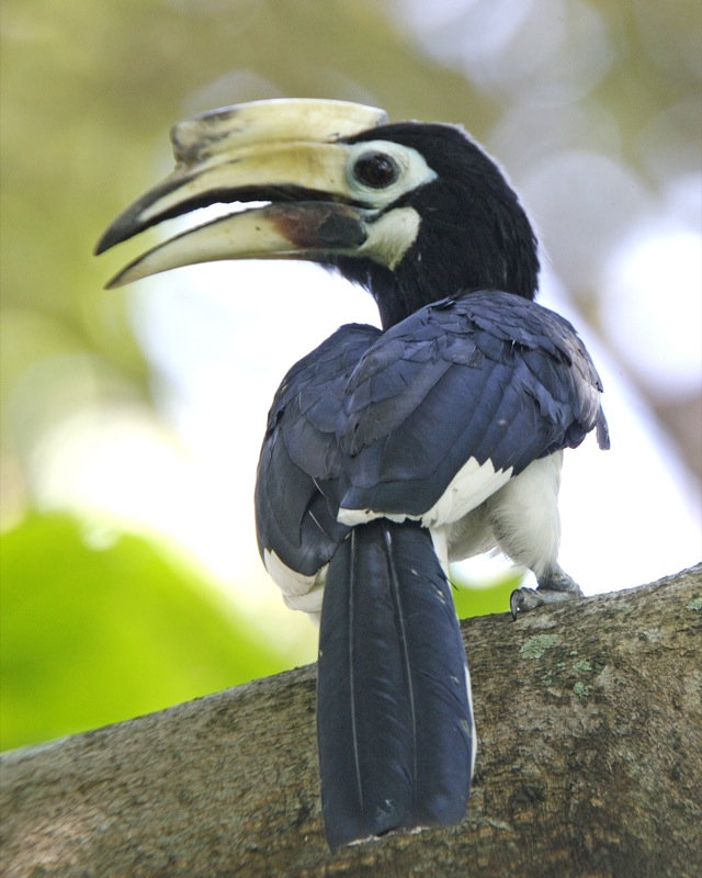 Anthracoceros albirostris Oriental Pied-Hornbill - male Anthracoceros albirostris 17th. May 2009 Pulau Ubin, Singapore Distribution: 690V6084